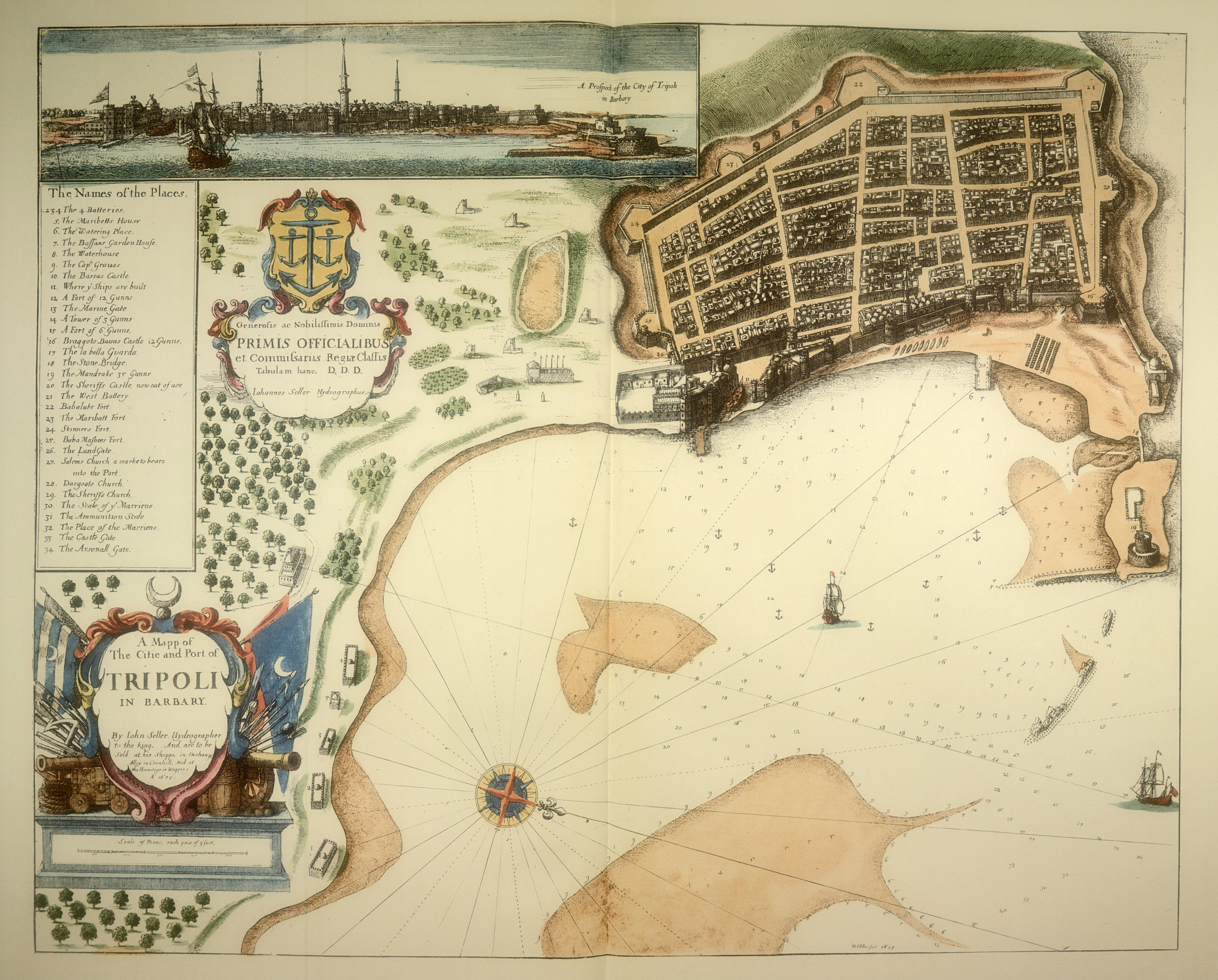 An engraving of Tripoli, Libya when it was part of the Ottoman Empire in 1675. Engraving by John Seller.